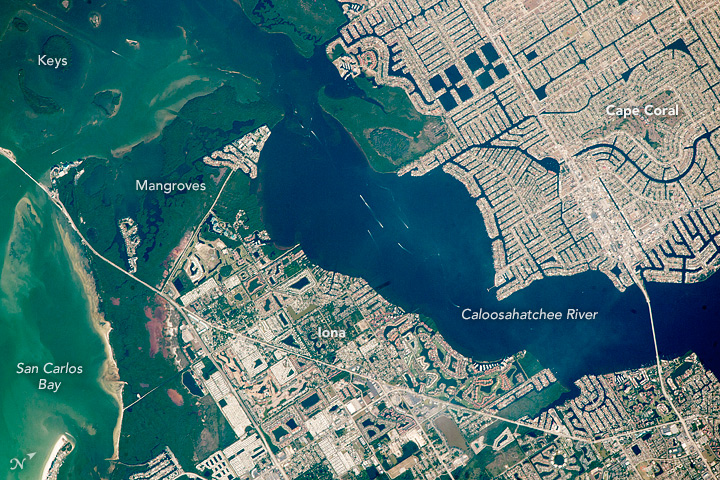 An astronaut aboard the International Space Station (ISS) used the highest power lens available to document the complex patterns around Cape Coral, a master-planned city born in 1957. The development is a hub of the Fort Myers metropolitan area—one of the youngest cities in the United States and home to 680,000 people. Cape Coral is also known to some as the “Waterfront Wonderland.” Many of the dark lines through this development on the Gulf of Mexico are not streets but a vast network of constructed canals totaling more than 400 miles (640 kilometers)—perhaps the longest canal shoreline in the world. The canal system is so extensive that local ecology and tides have been affected. Boat wakes (image center) appear as thin white lines on the wide Caloosahatchee River, which separates Cape Coral from Iona. The Caloosahatchee has been extensively engineered to assist river traffic. One such channel is the straight line (top left) cutting through the small islands, or keys. The 3,400 feet (1,000 meter) long Cape Coral Bridge (lower right) was opened in early 1964, just a few years after the founding of the city. The bridge significantly reduces travel times to the cities of Iona and Fort Myers on the opposite side of the river. Another bridge (on the left) leads to Sanibel Island, a popular tourist destination. Many of the shorelines are extensively covered by mangrove wetlands. Several areas in the region are protected, partly because mangroves protect coastlines against erosion. Manatees abound in the waters of Florida, and a wildlife refuge for manatees has been established on San Carlos Bay.